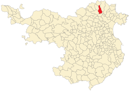 San Clemente Sasebas